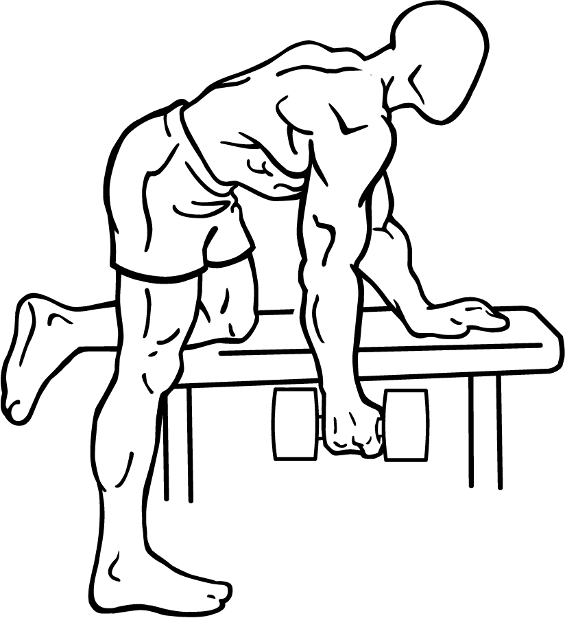 an exercise of shoulder